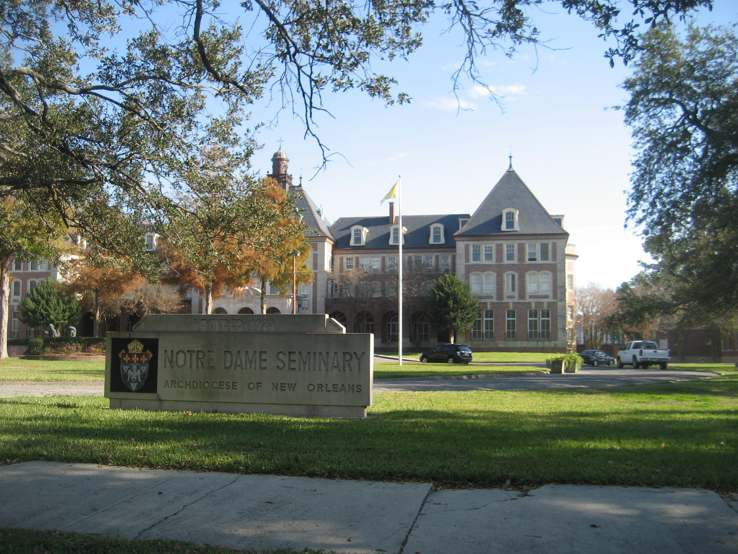 Notre Dame Seminary, New Orleans. View of palace from Carrollton Avenue.